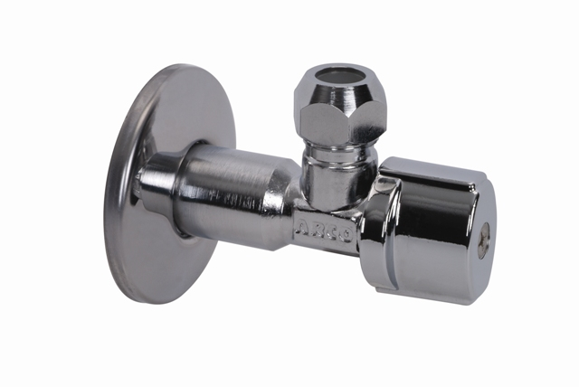 VALVE